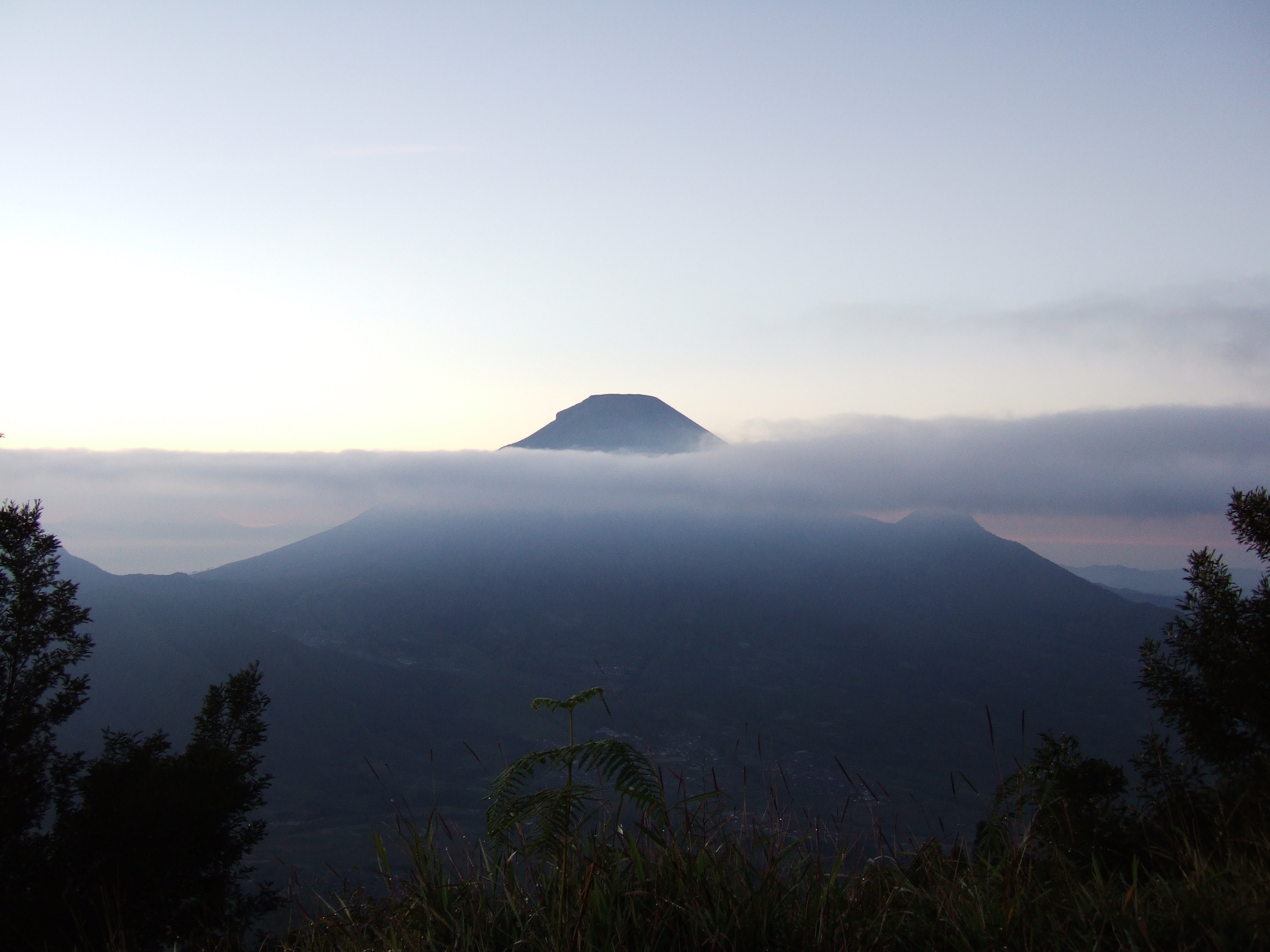 Summit of Mount Sindoro, view from Mount Sikunir, Dieng Plateau, Central Java, Indonesia